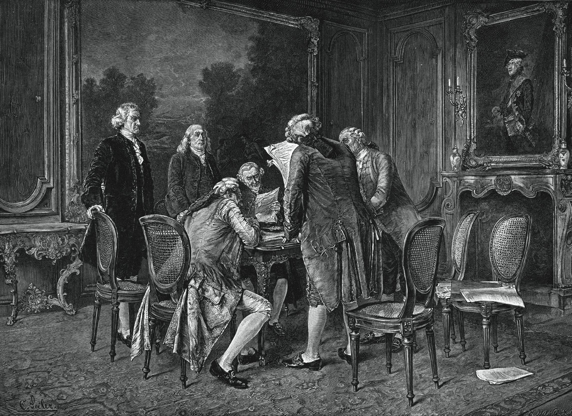 Signing the Preliminary Treaty of Peace at Paris, November 30, 1782. John Jay and Benjamin Franklin standing at the left.